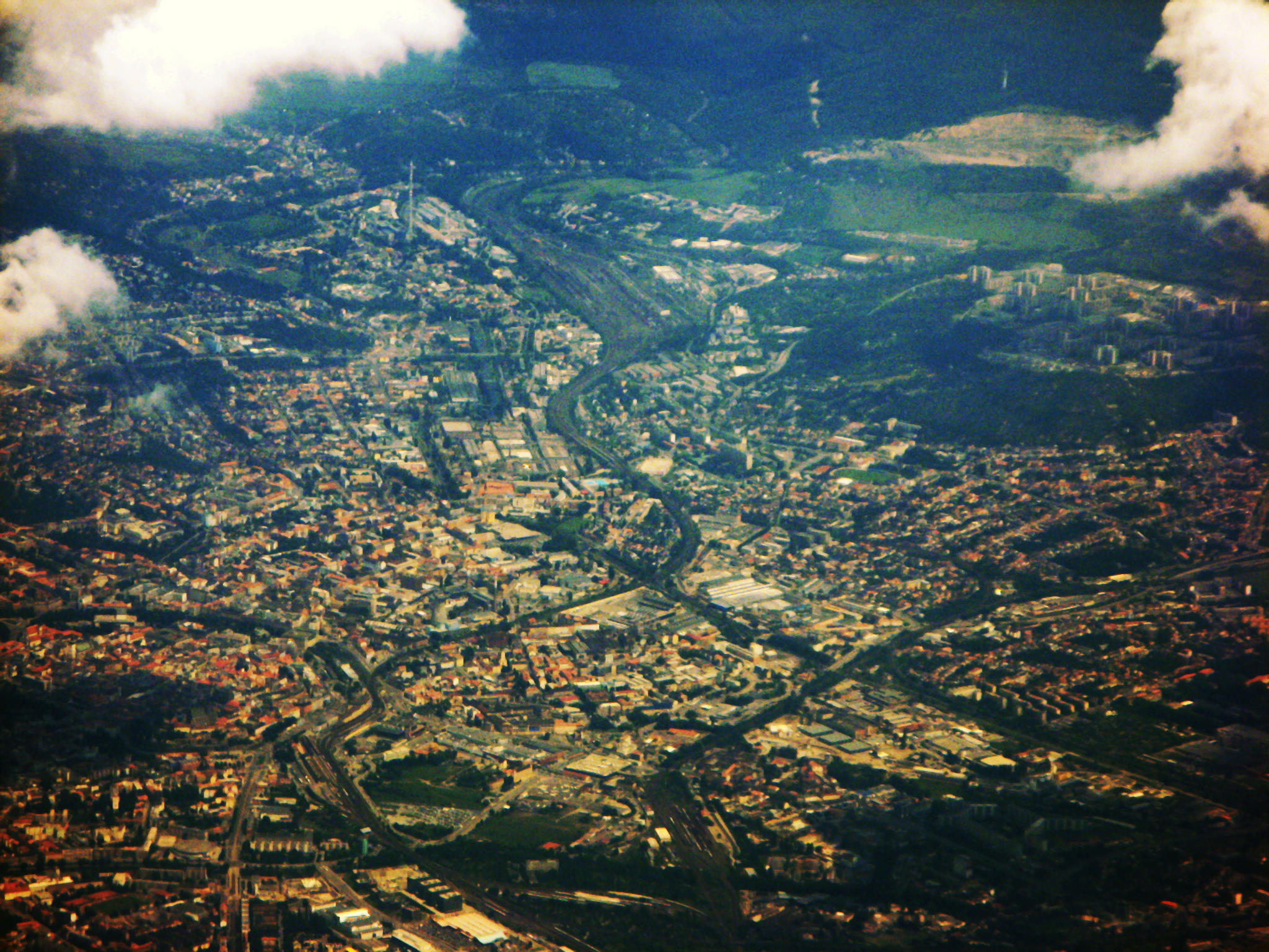 View of Brno from airplane